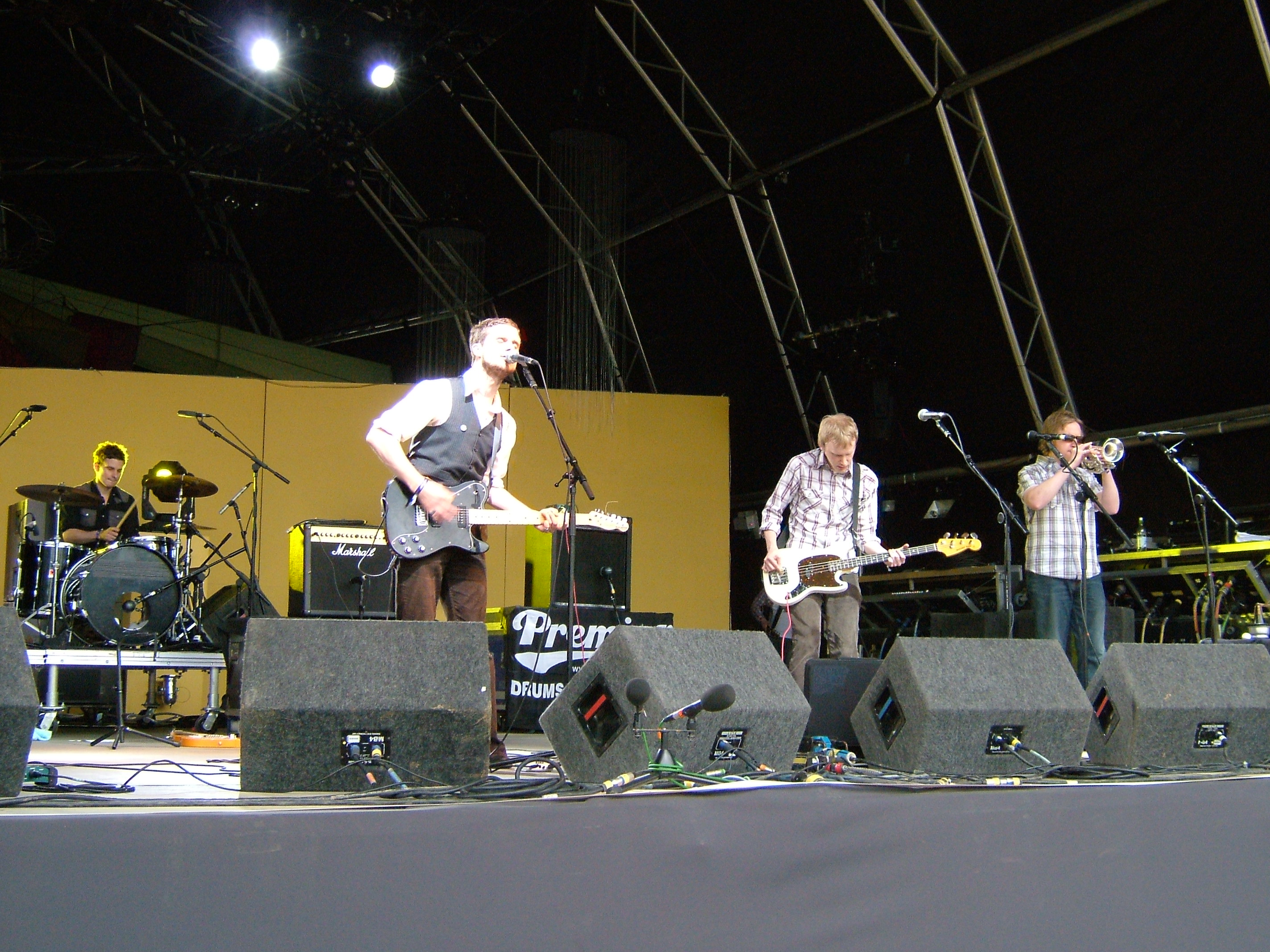 Pacific Ocean Fire playing at the Summer Sundae festival, August 2007